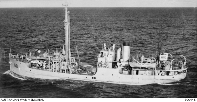 Aerial port-side view of HMAS Bombo auxillary minesweeper in service for RAN during World War II